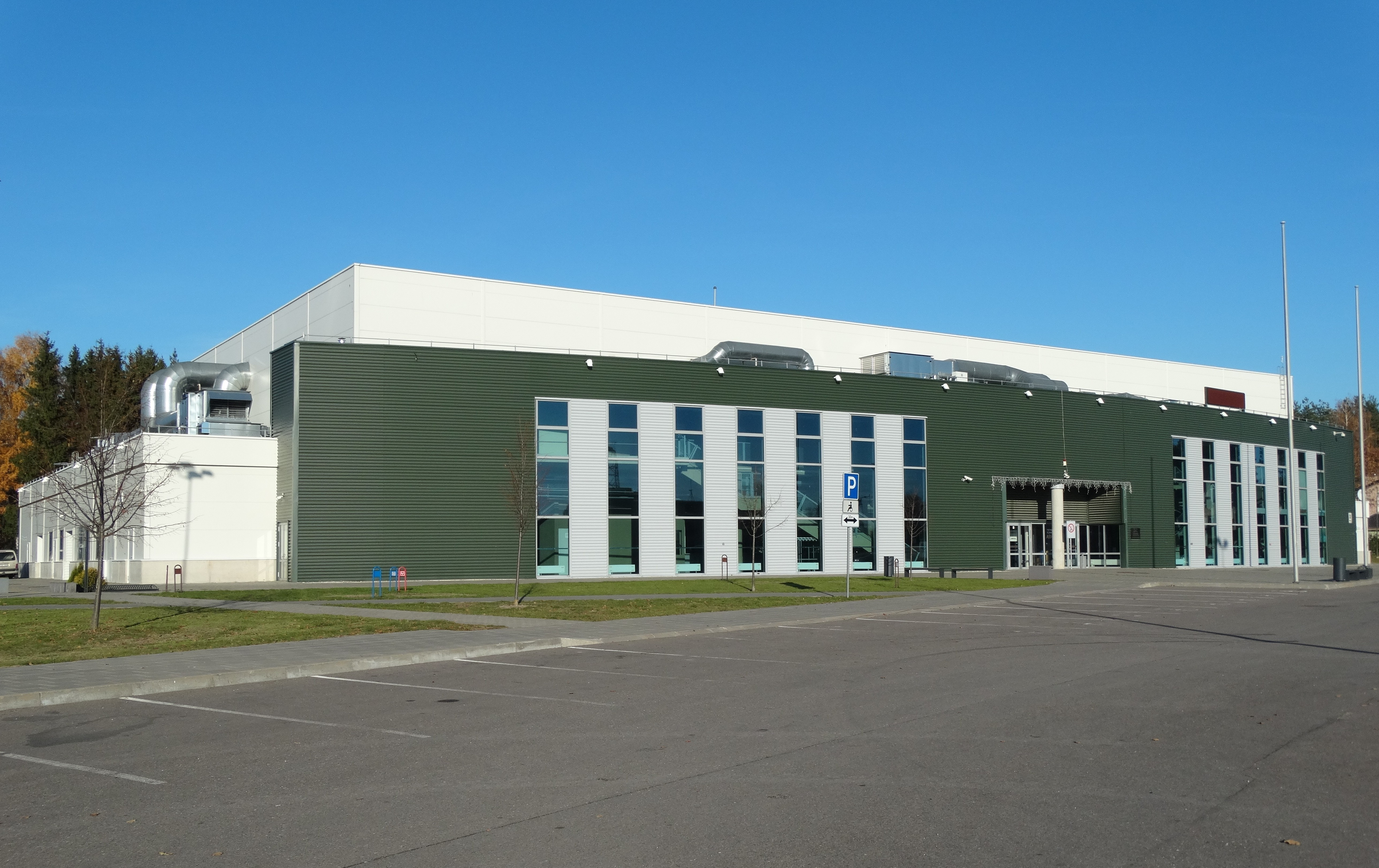 Sports arena, Utena, Lithuania